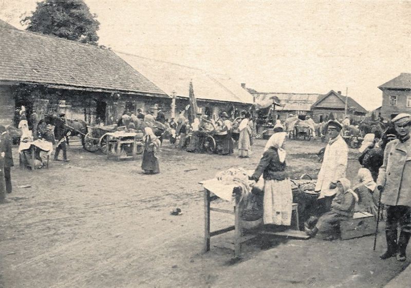 Marketplace in Puchavičy, Minsk province